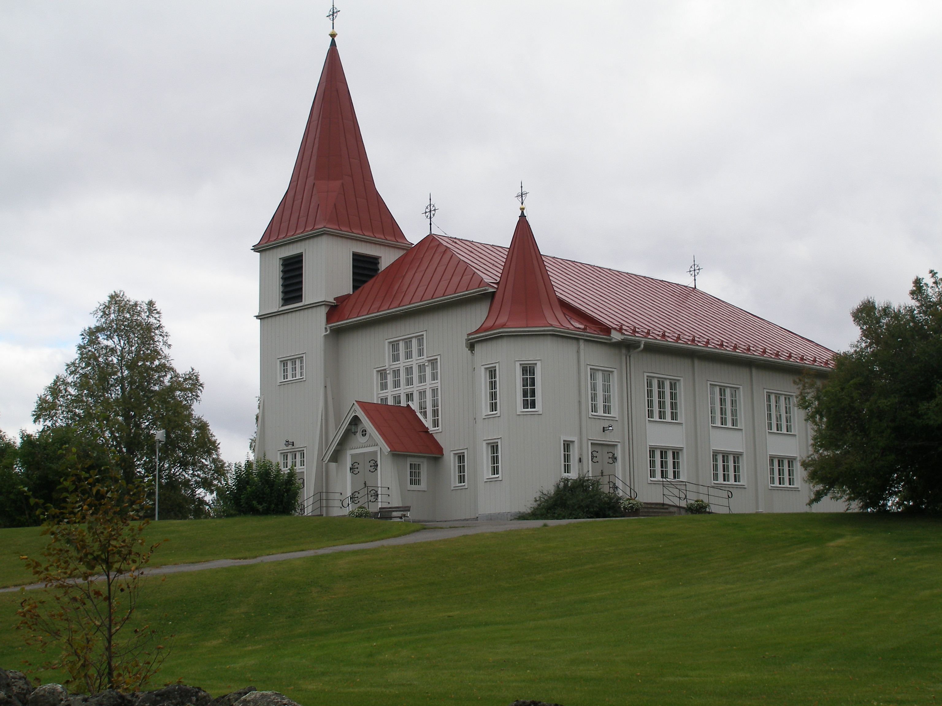 The church of Fällfors, Byske och Fällfors församling, Luleå stift. Skellefteå municipality, Västerbotten, Sweden.